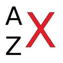 Where the chemical symbol is located in a chemical element identity.